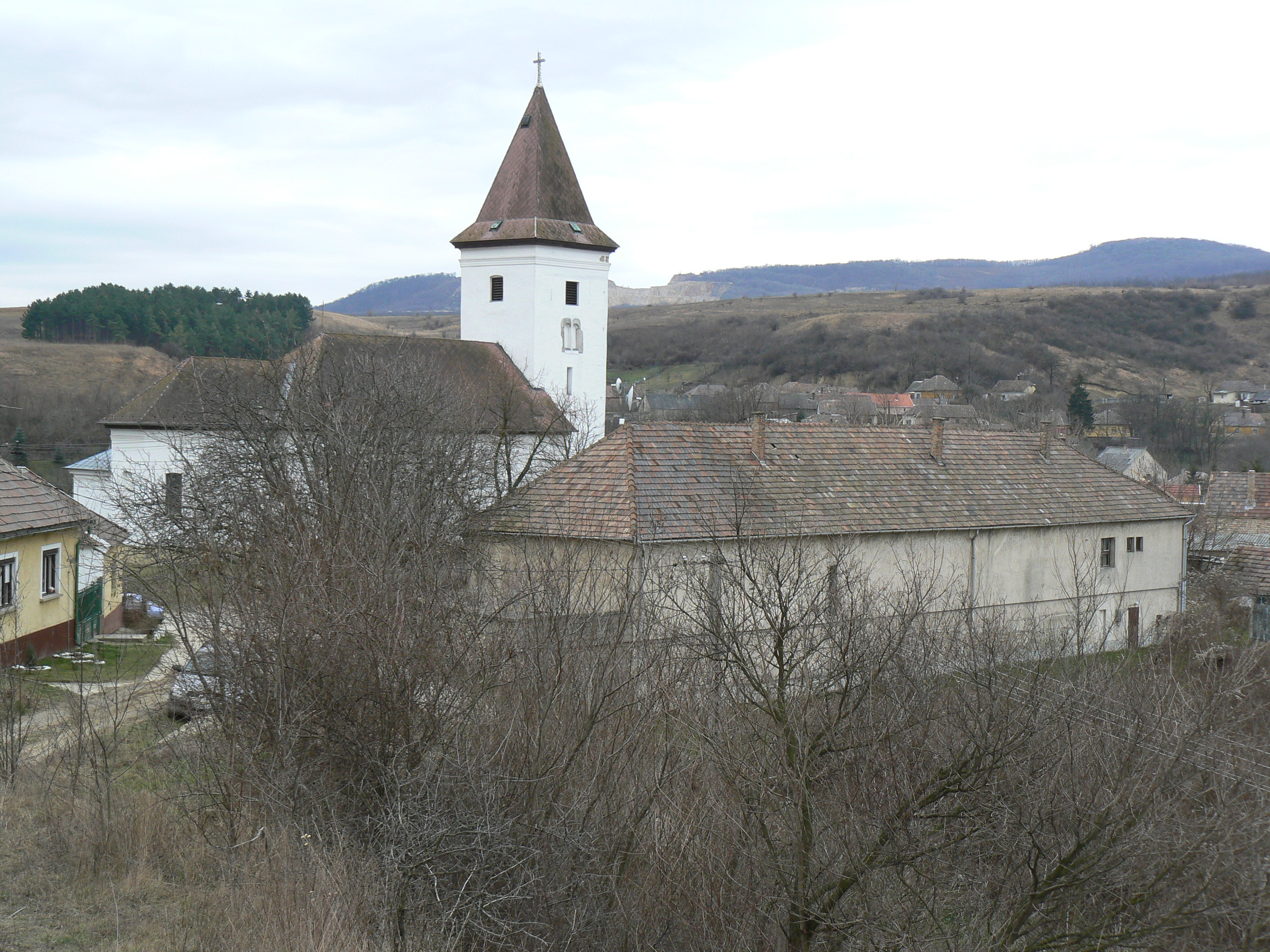 Roman Catholic curch of Bajót, Hungary